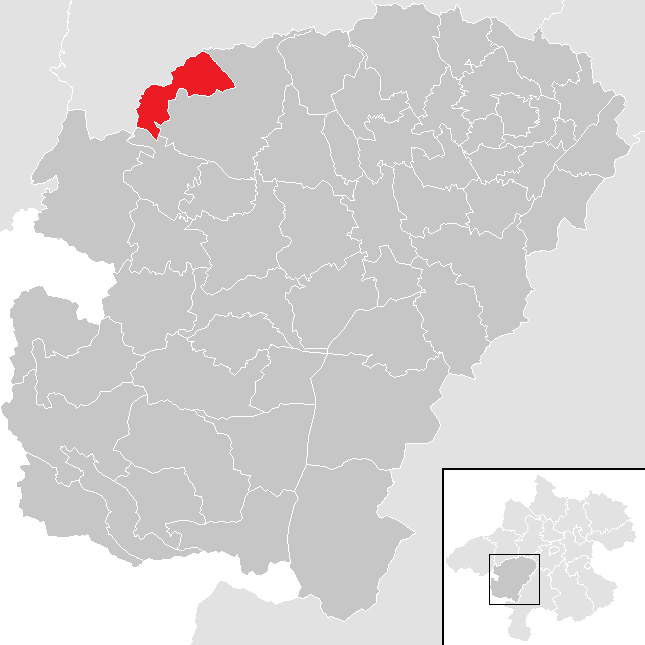 District Vöcklabruck